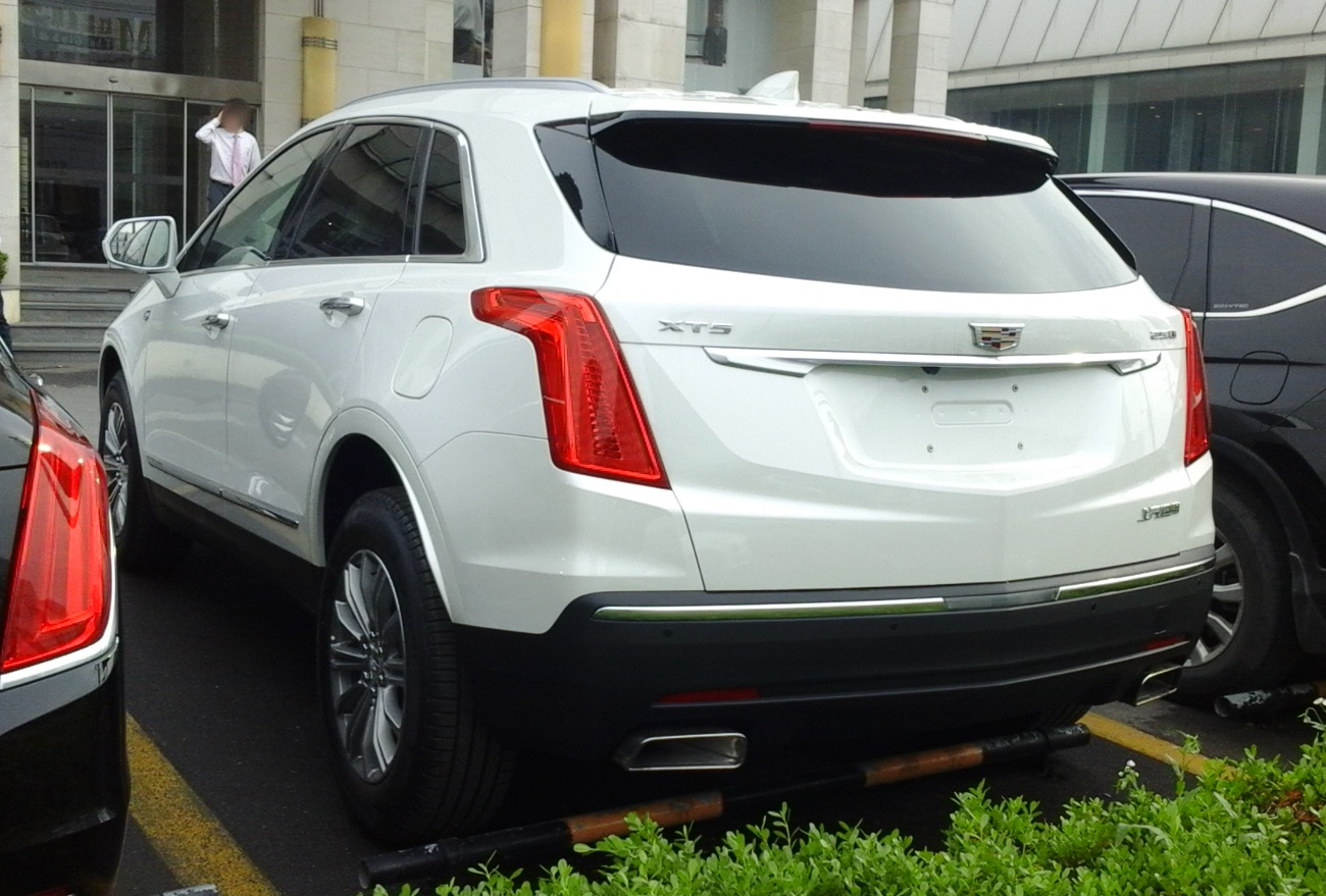 Cadillac XT5 photographed in Shanghai, China.